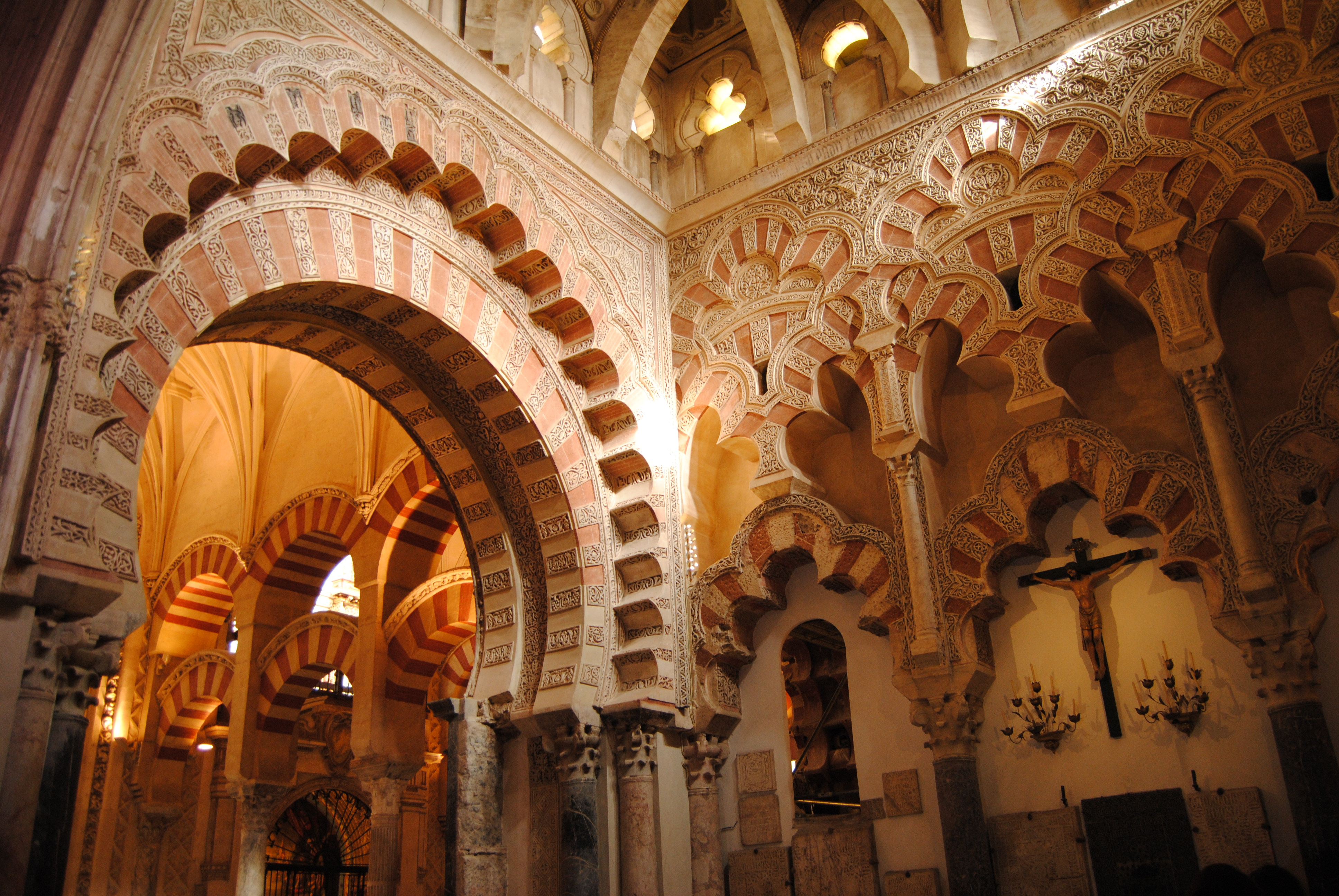 Cathedral-Great Mosque of Cordoba - Andalucia - Spain